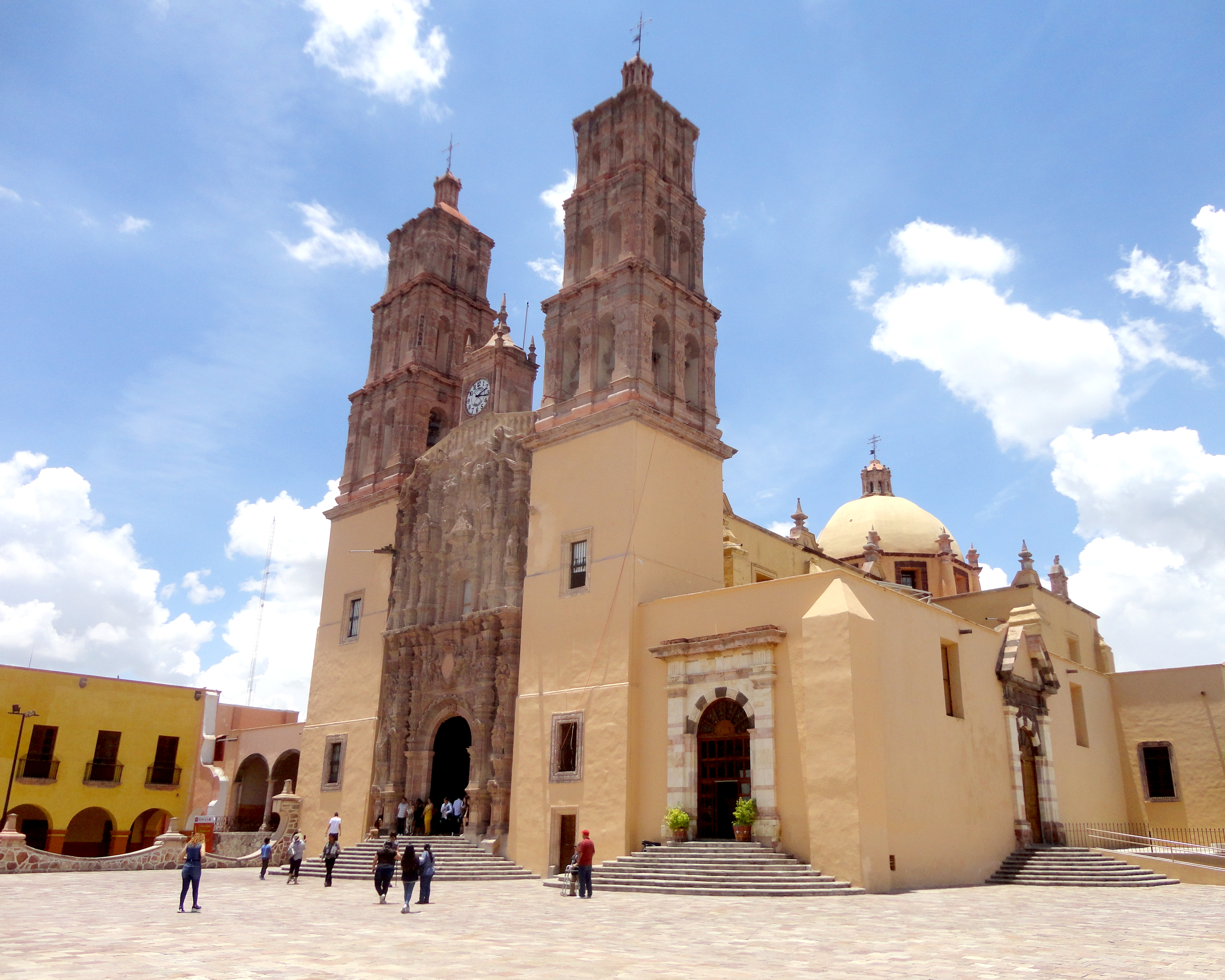 Parish of Our Lady of Sorrows in Dolores Hidalgo, Guanajuato, Mexico. The Cry of Dolores took place in this church.